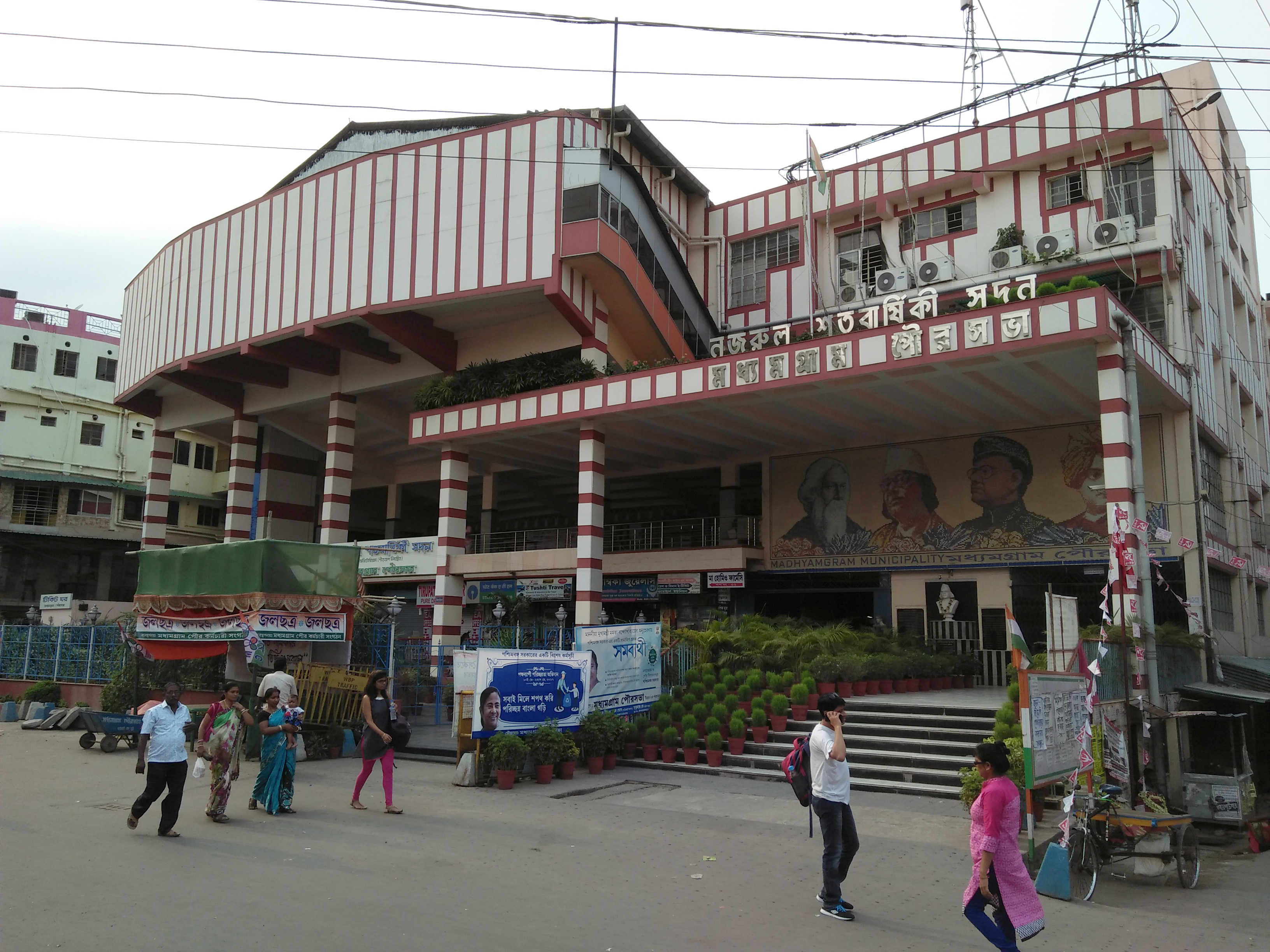 This was taken in North 24 Parganas.